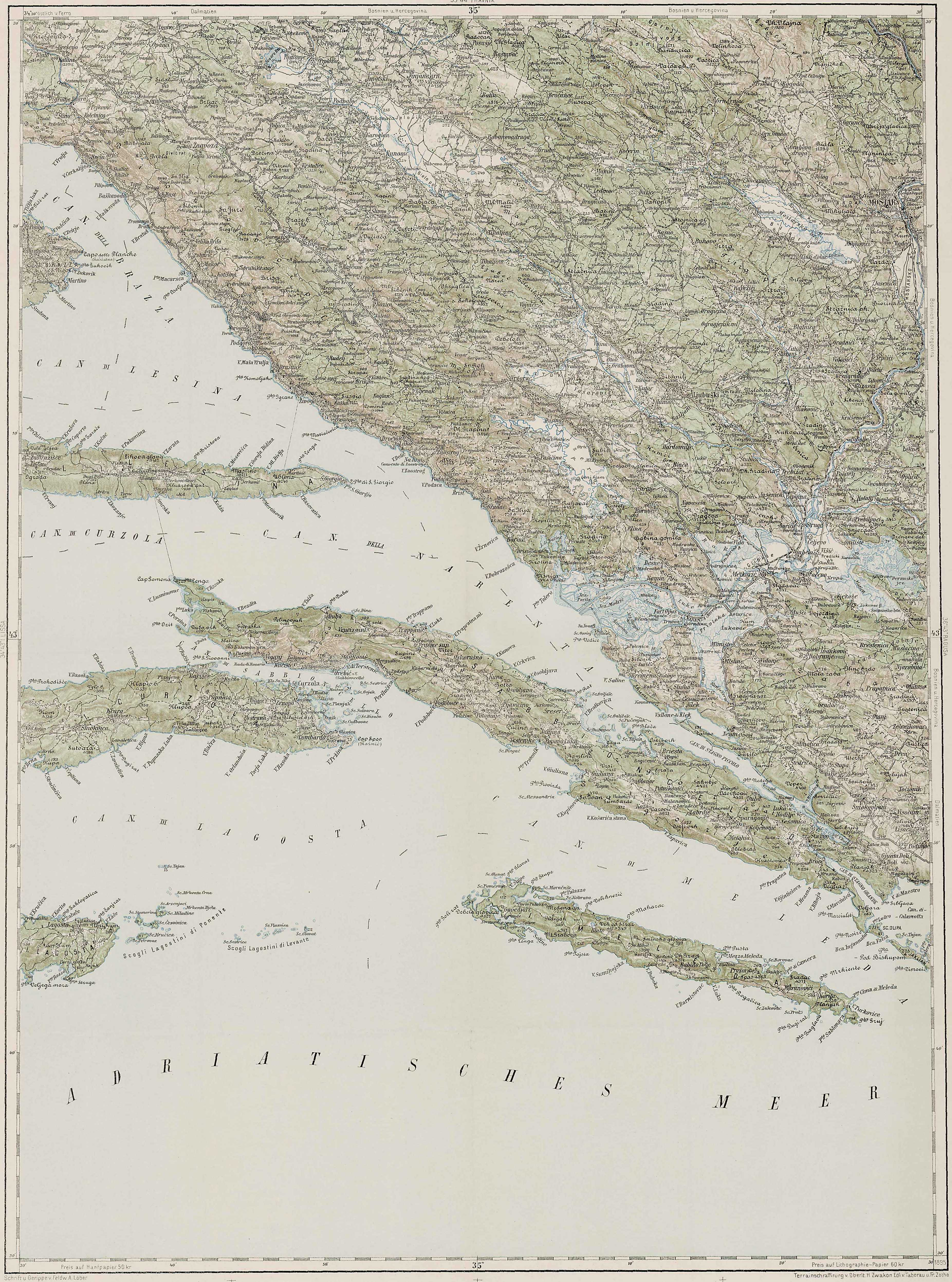 3rd Military Mapping Survey of Austria-Hungary - Mostar